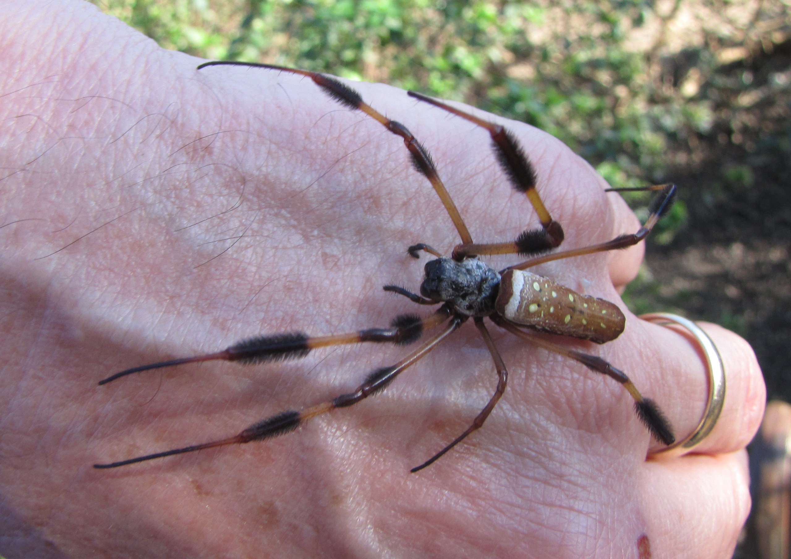 'Nephilla clavipes' - Golden silk spider Spider Pavillion, LA Museum of Natural History